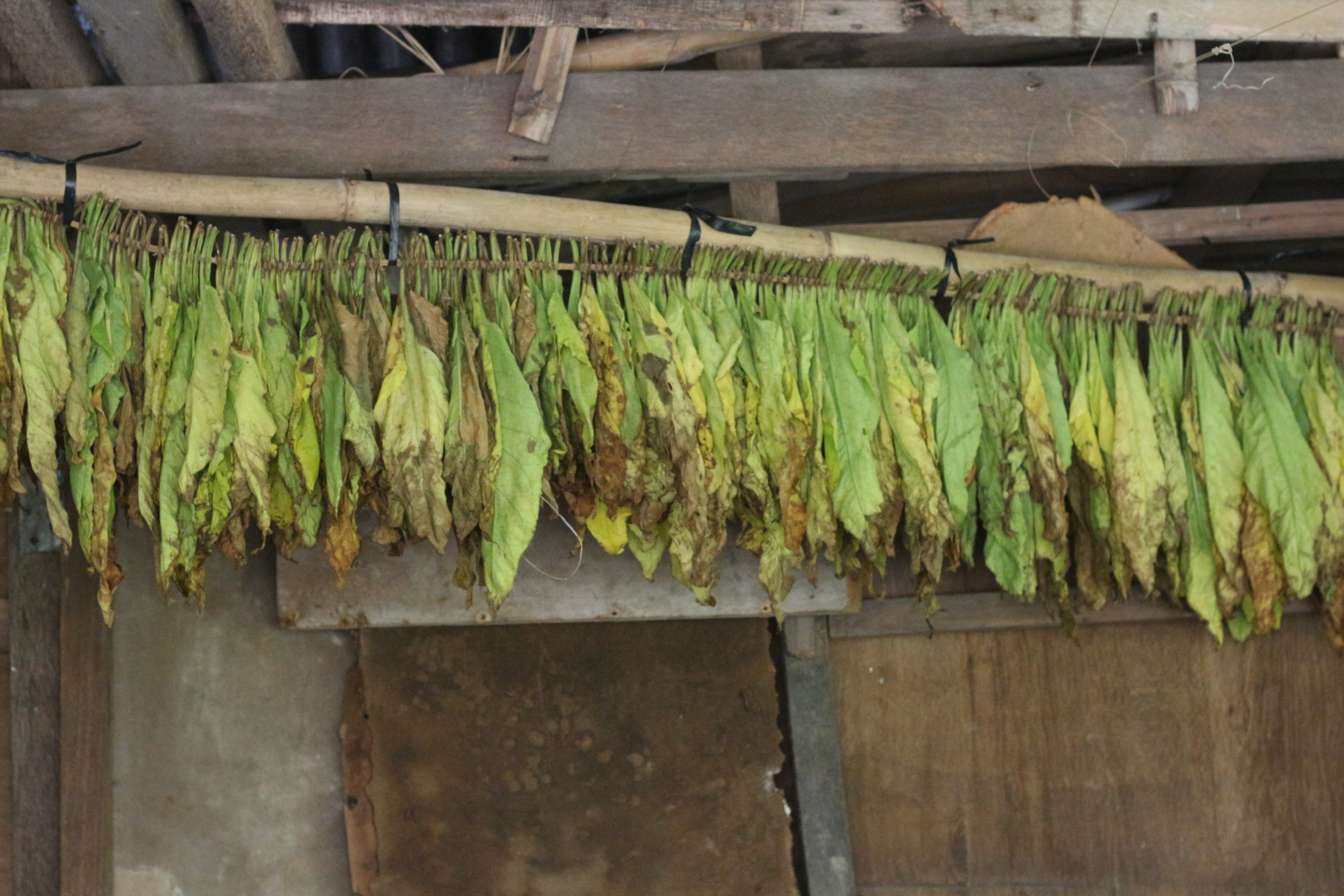 Tobacco leaves being dried inside a hut in Banton, Romblon before being rolled into cigars.